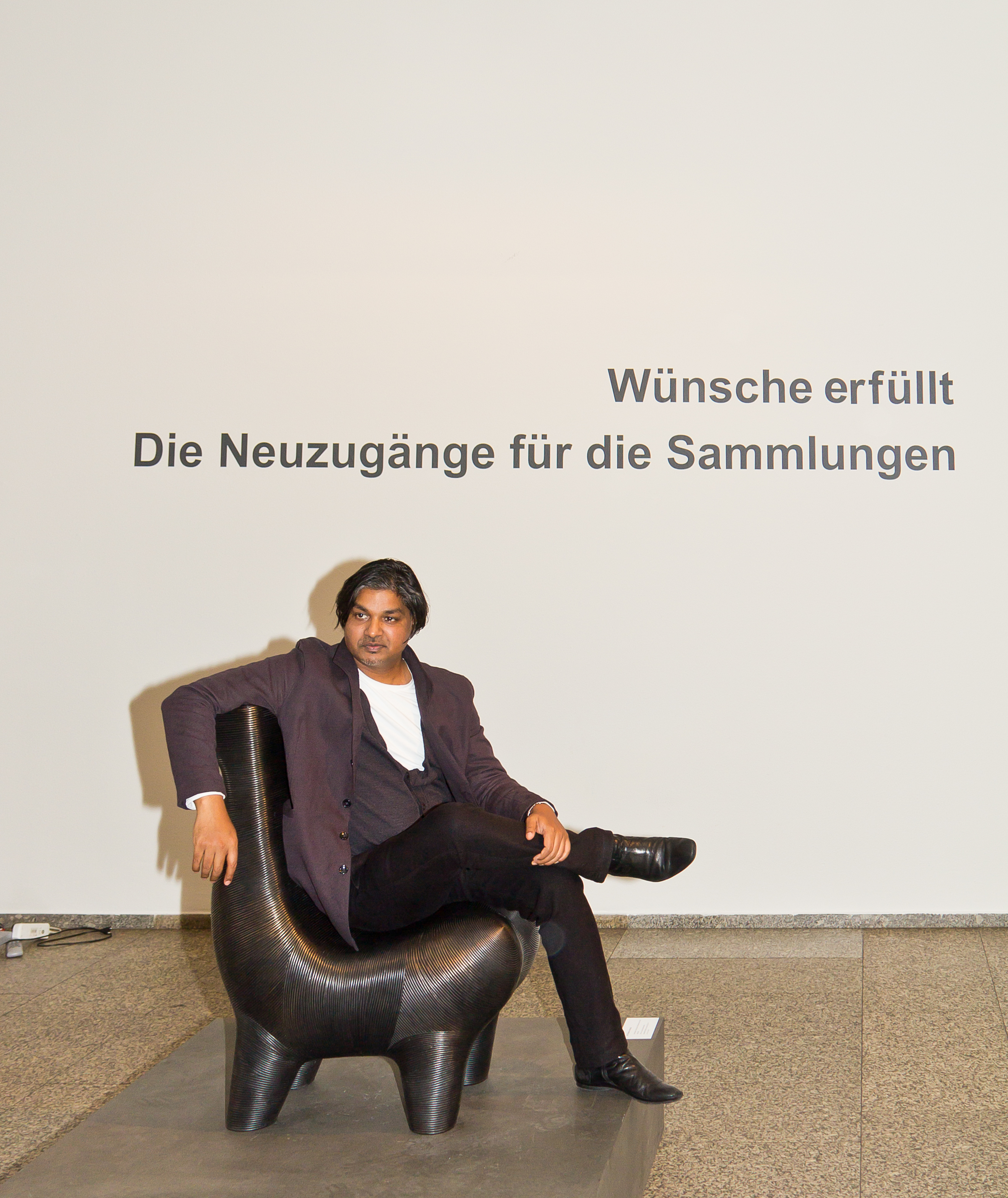 The indian designer Satyendra Pakhale explains in a press conference his sculpture Bell Metal Horse Chair in the Museum of Applied Art, Cologne, Germany